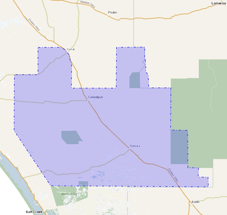 Approximation of the District Council of Coonalpyn Downs council area at time of establishment on 30 May 1957. Image created by tracing boundaries described in legislation (at over free (CC BY 4.0) map imagery provided by Government of South Australia (at 8 April 2019